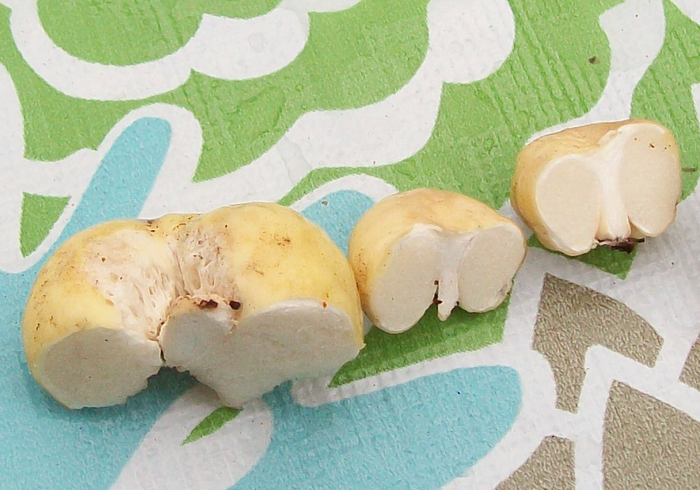 Macowanites luteolus A.H. Sm. & Trappe